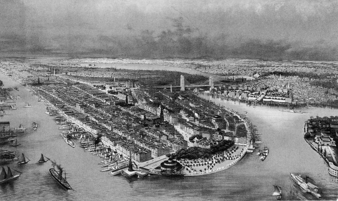 Aerial view illustration of the tip of Manhattan in New York City, featuring Castle Garden in Battery Park and docks on the rivers. Brooklyn Bridge under construction is shown in exaggerated scale.